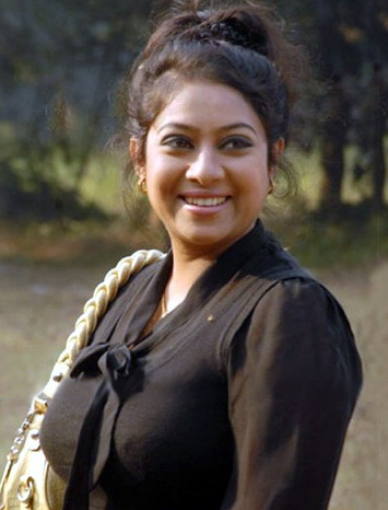 Shabnur Bangladeshi actress